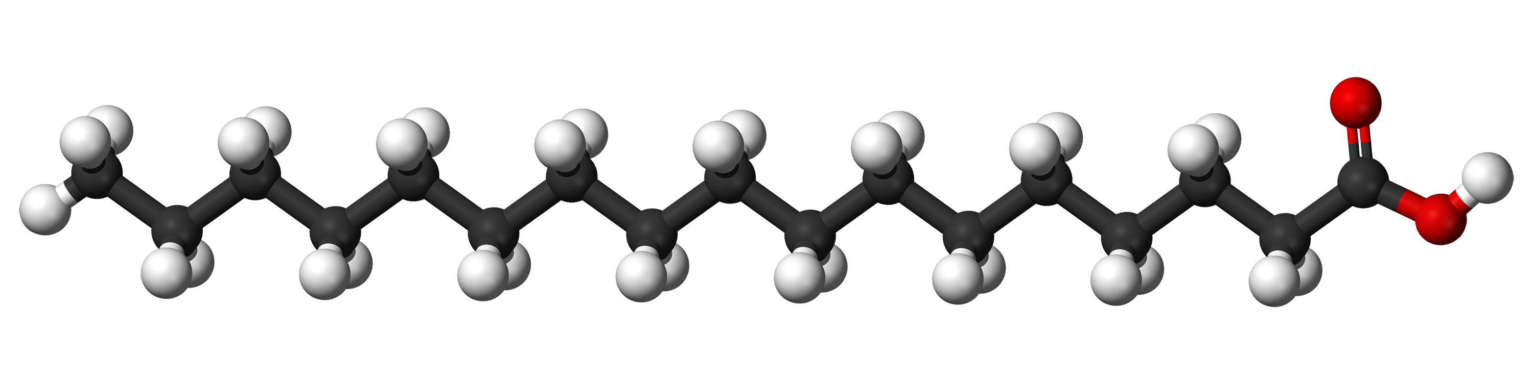 Ball-and-stick model of the Margaric acid molecule (also known as Heptadecanoic acid), a saturated fatty acid with 17 carbon atoms.